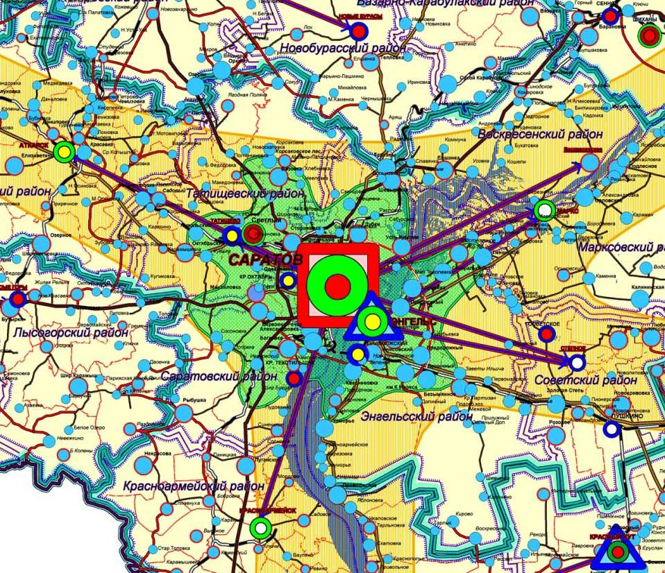 Saratov-Engels urban agglomeration (Saratov Province, Russia)